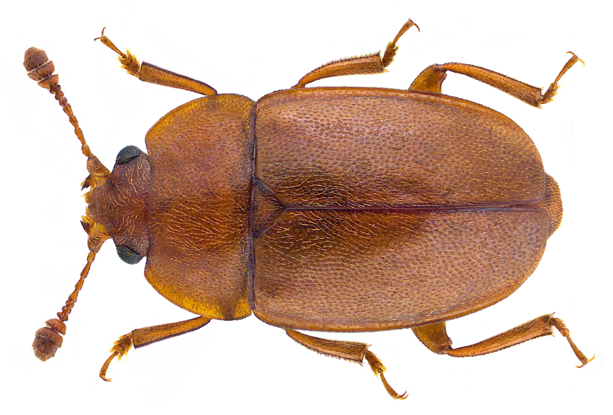 Family: Nitidulidae Size: 3.4 mm (2.5 to 3.5 mm) Origin: Europe Ecology: development in the nests of bumblebees, the beetles are found on flowers Location: Germany, Bavaria, Upper Franconia, Selbitz, Foehrig leg.det. U.Schmidt, 5.V.2005 Photo: U.Schmidt, 2016